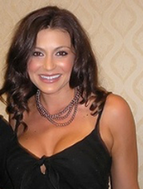 Cerina Vincent at a Chiller Theatre Convention, June 2006